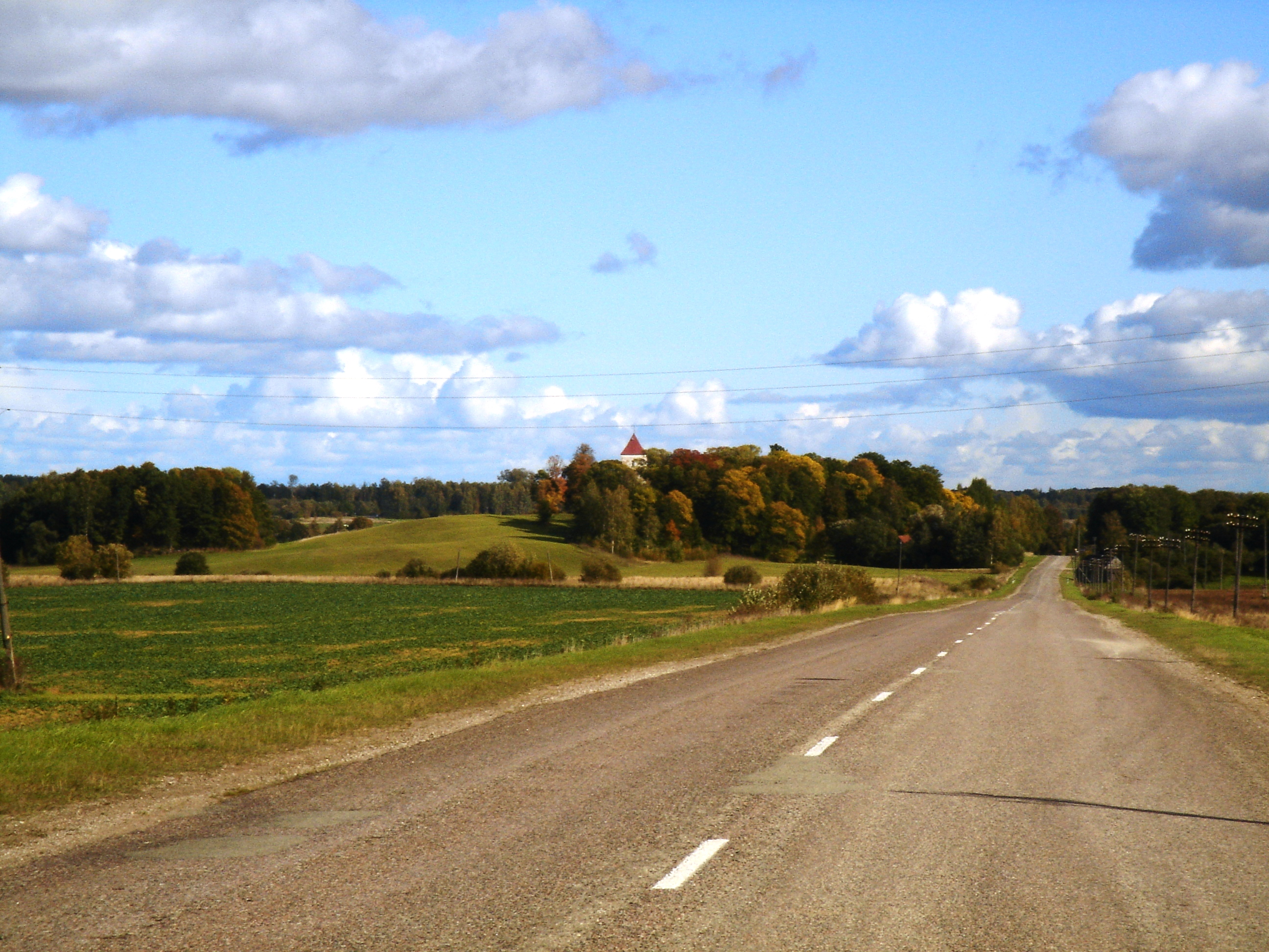 Regional road P121 near SātiLatviešu: Autoceļš P121 pie Sātiem